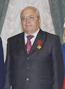 KIROV. Dmitry Medvedev with rector of Moscow State University Viktor Sadovnichiy.